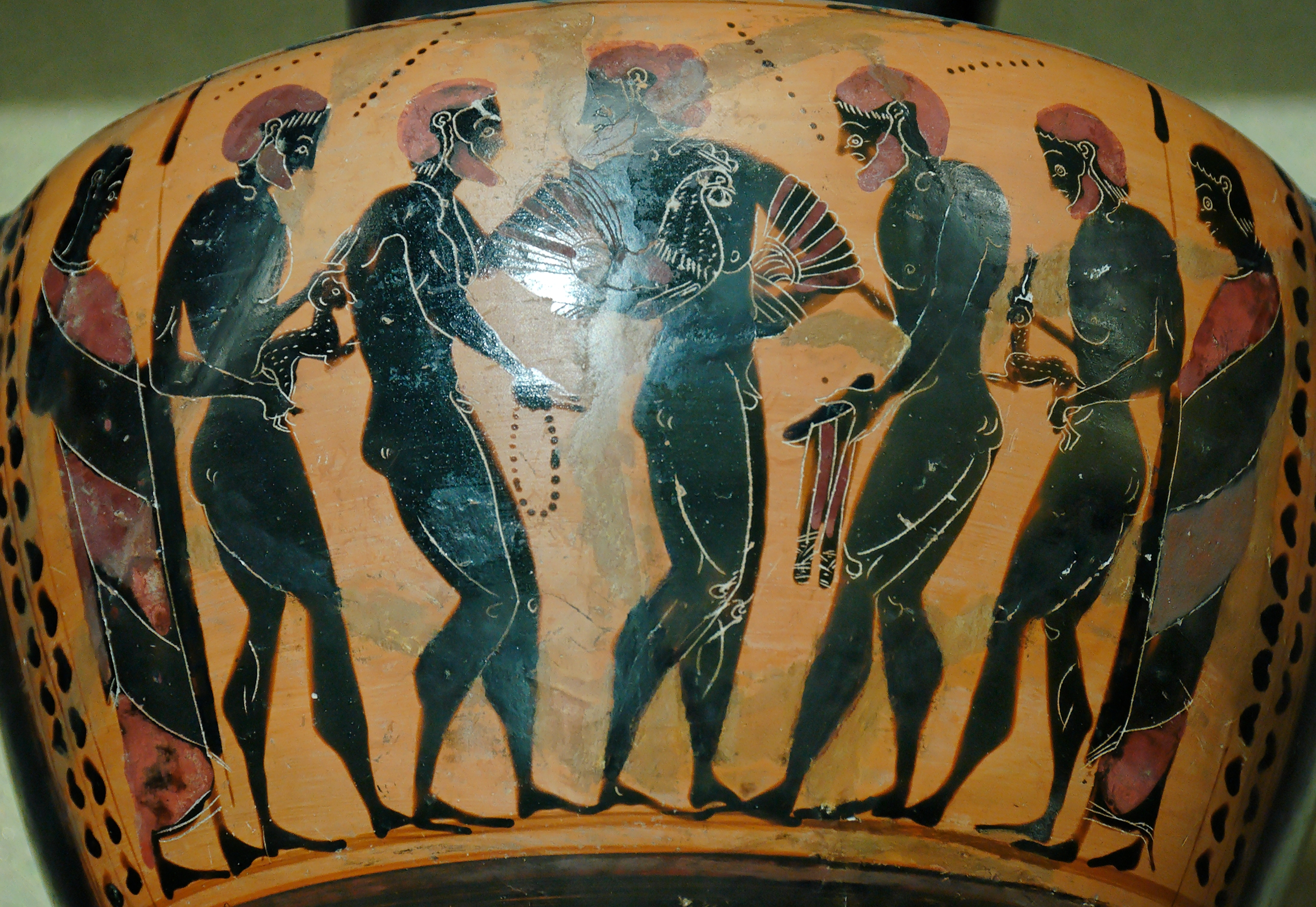 Pederastic courtship. Detail from an Attic black-figure hydria.